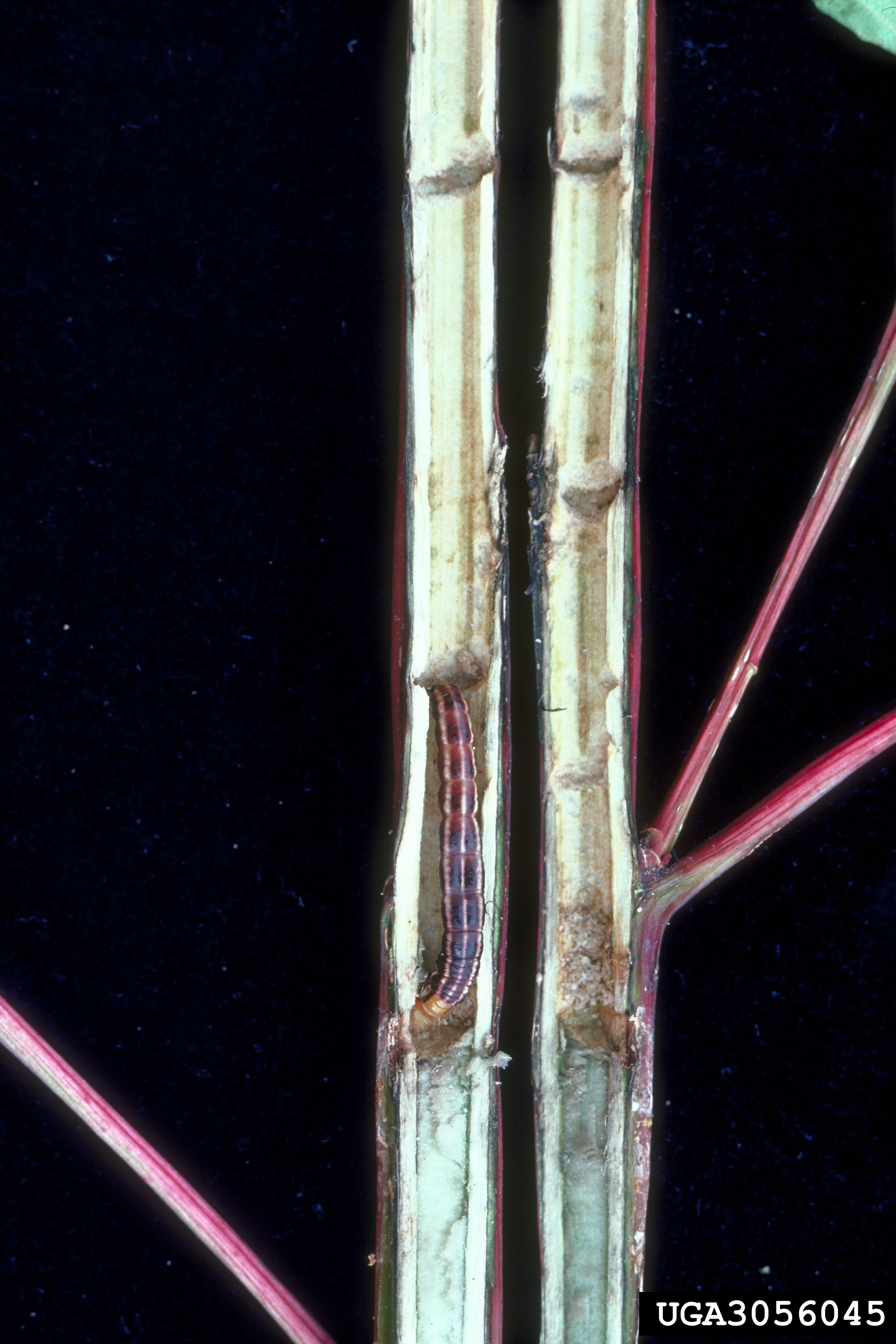 Papaipema cataphracta_larva